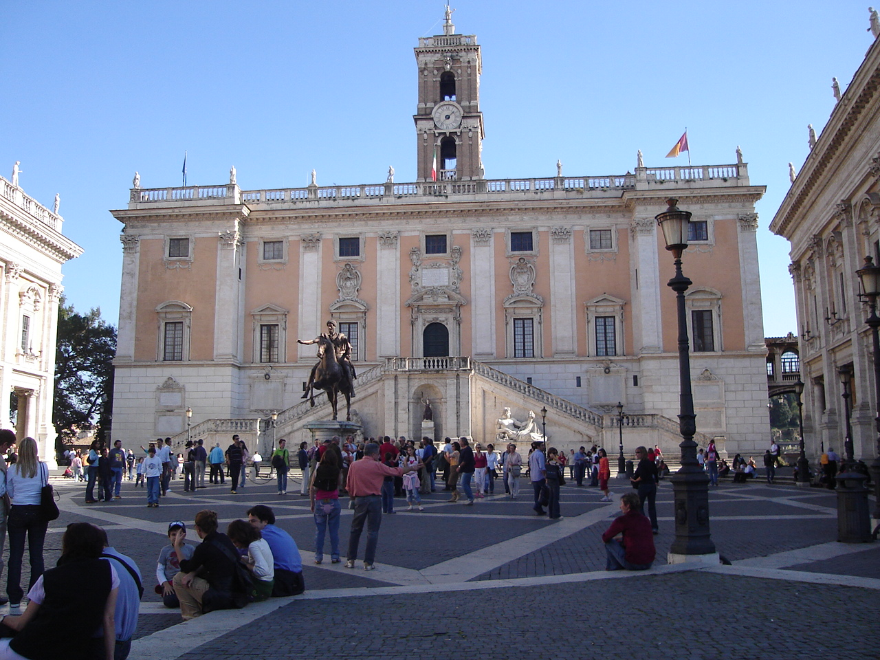 Palazzo Senatorio in the Piazza del Campidoglio in Roma, between the Palazzo dei Conservatori and the Palazzo Nuovo. 1981 replica of the Marco Aurelio's statue (circa 165 CE) stands in the centre, the Palazzo dei conservatori to the right, and the Palazzo Nuovo to the left. Piazza creators: Michelangelo circa 1536; Michelangelo Buonarroti 1536 - 1546; various architects up to 17th century; paving completed in 1940 following Michelangelo's design. Palazzo Senatorio creators: bell tower 1578 and 1582 by Martin Longhi the Elder (died 1591); facade by Giacomo della Porta (died 1602) and Girolamo Rainaldi (died 1655). Equestrian Statue of Marcus Aurelius creator: unknown, created circa 165 CE. Palazzo Nuovo: finished in 1654 following Michelangelo's design.